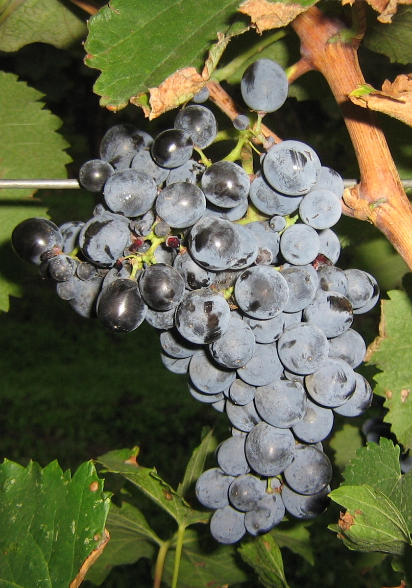 Saperavi growing in the Purcari vineyard in Moldova